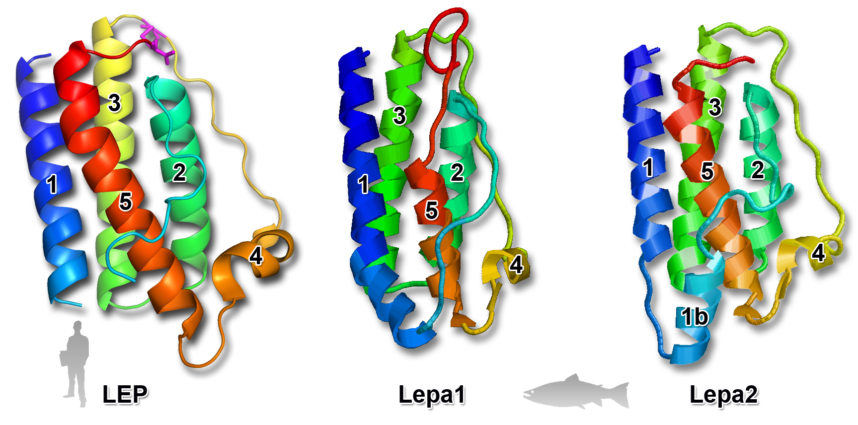 Models of Atlantic salmon leptins (lepa1, lepa2) compared to human leptin (LEP) based on the ProModII. The human molecule 1AX8.pdb shows the four anti-parallel -helices (1, 2, 4, 5) with corresponding domains in the Atlantic salmon proteins. The C-terminal cysteine is shown as ball and stick. (Anne-Grethe Gamst Moen; unpublished results)